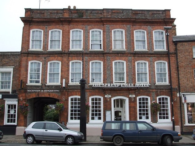 The Spread Eagle Hotel, 17 Cornmarket, Thame, Oxfordshire